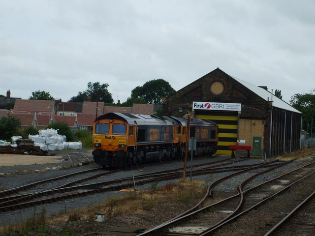 March diesel depot The former goods shed at March Station has been converted into a diesel depot, two class 66 locomotives stand outside.